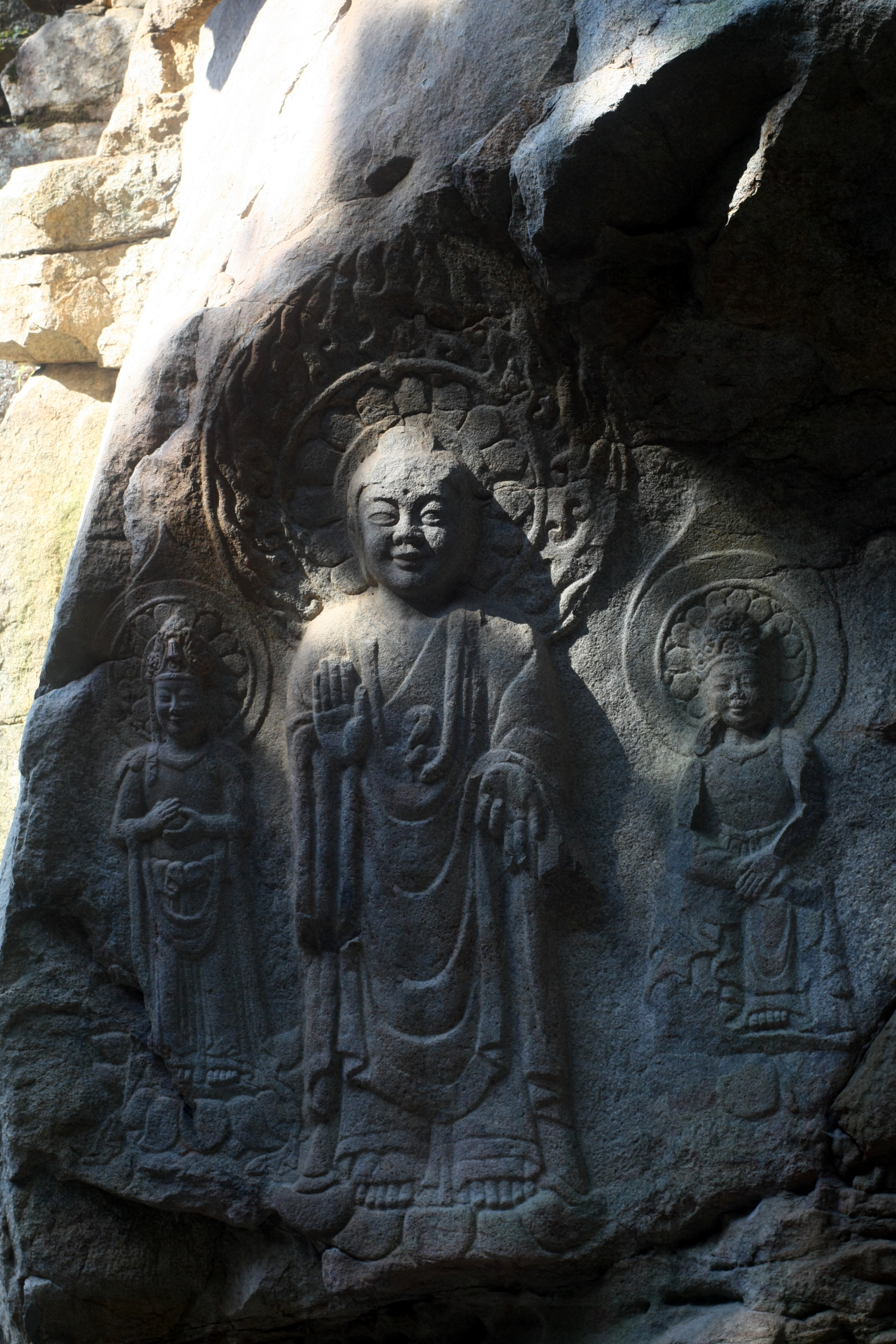 Seosan Buddha Triad Carved on the Rock